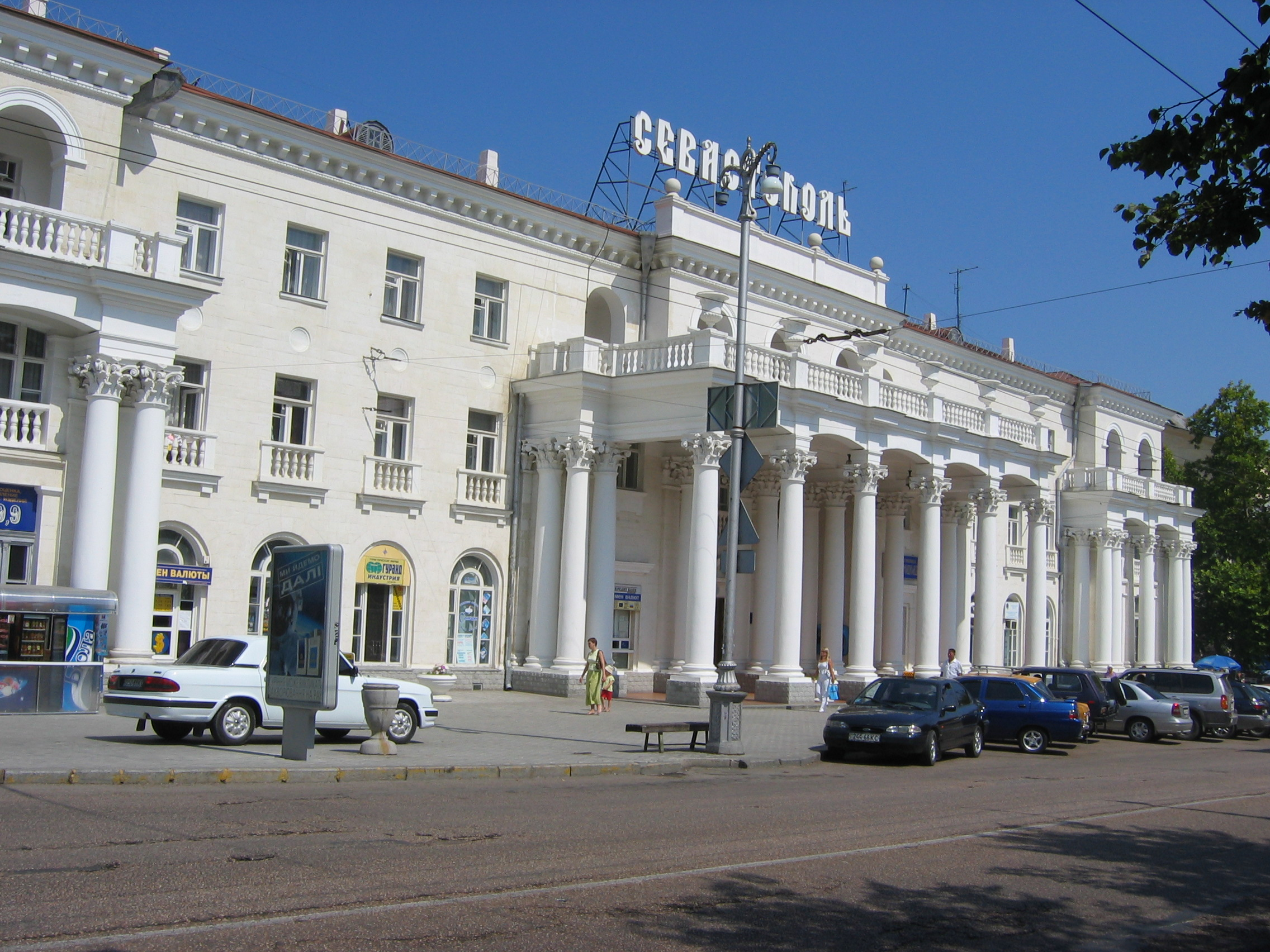 Hotel Sevastopol. Built in 1953. Architects Yu. A. Tautman, E. G. Stavinsky